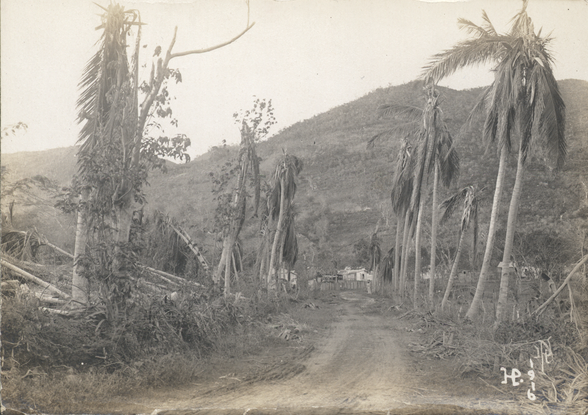 Battered trees in St. Thomas after the October 1916 hurricane.